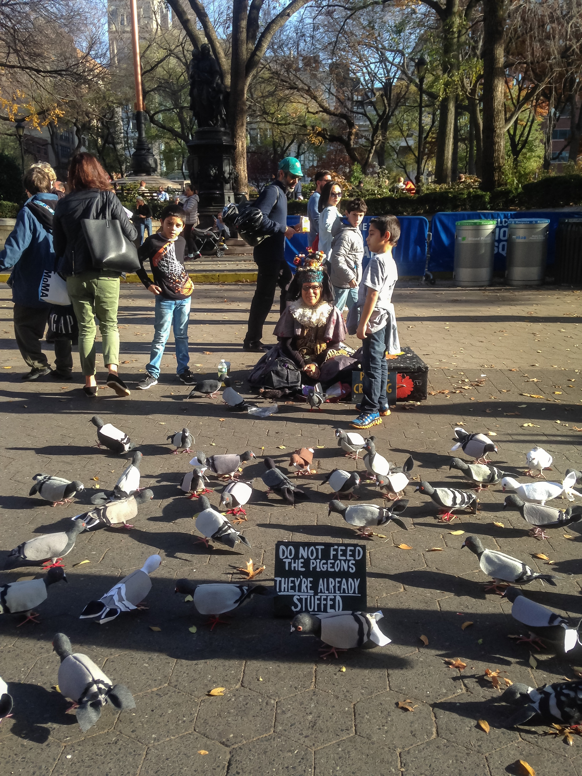 Mother Pigeon sitting in her flock of pigeons in her art installation